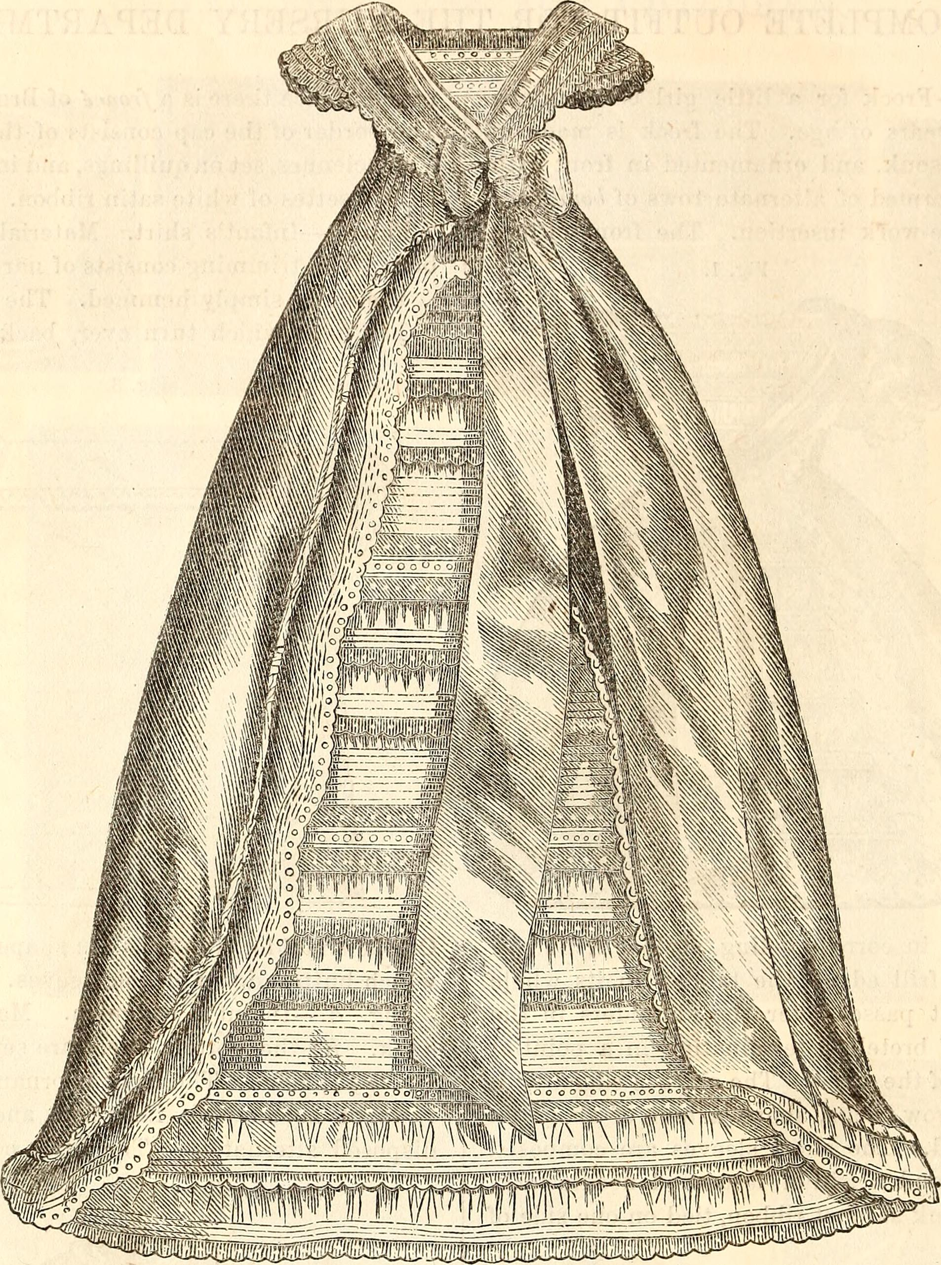 Title: Godey's lady's book Year: 1840 (1840s) Authors: Subjects: Women American literature Costume Arts Publisher: Philadelphia, Pa. : L.A. Godey Text Appearing Before Image: broidered and edged with Valenciennes. Thebedgown is confined round the waist by a band 180 GODEY S LADYS BOOK AND MAGAZINE. Ficr. .3. Text Appearing After Image: of nansouk, hemmed and tied in a bow andends in front. Fig. 5.—Baptismal robe. This robe, whichis of an extremely rich and elegant character,is made of very fine nansouk, and the front isso disposed as to present the effect of a skirtand tnnic. At the bottom of the front thereare three broad frills or flounces, edged with arow of Valenciennes, above which are threenarrow hrcks. Next are three rows of. inser-tion ; the middle row being of embroidery onnansouk, and those above and below of Valen-.criennes. Above these insertions are ten narrowtucks, and these are again surmounted by twofrills, rows of insertion, and so on, till the wholefront is completed. The tnnic is formed by afrill edged with Valenciennes, and surmounted by narrow tucks. The front of the little corsageis composed of rows of insertion, embroidery,and Valenciennes, disposed alternately. A nar-row frill forms bretelles on the shoulders ; andthe sleeves consist of similar frills. A broadsarsnet ribbon passed across on